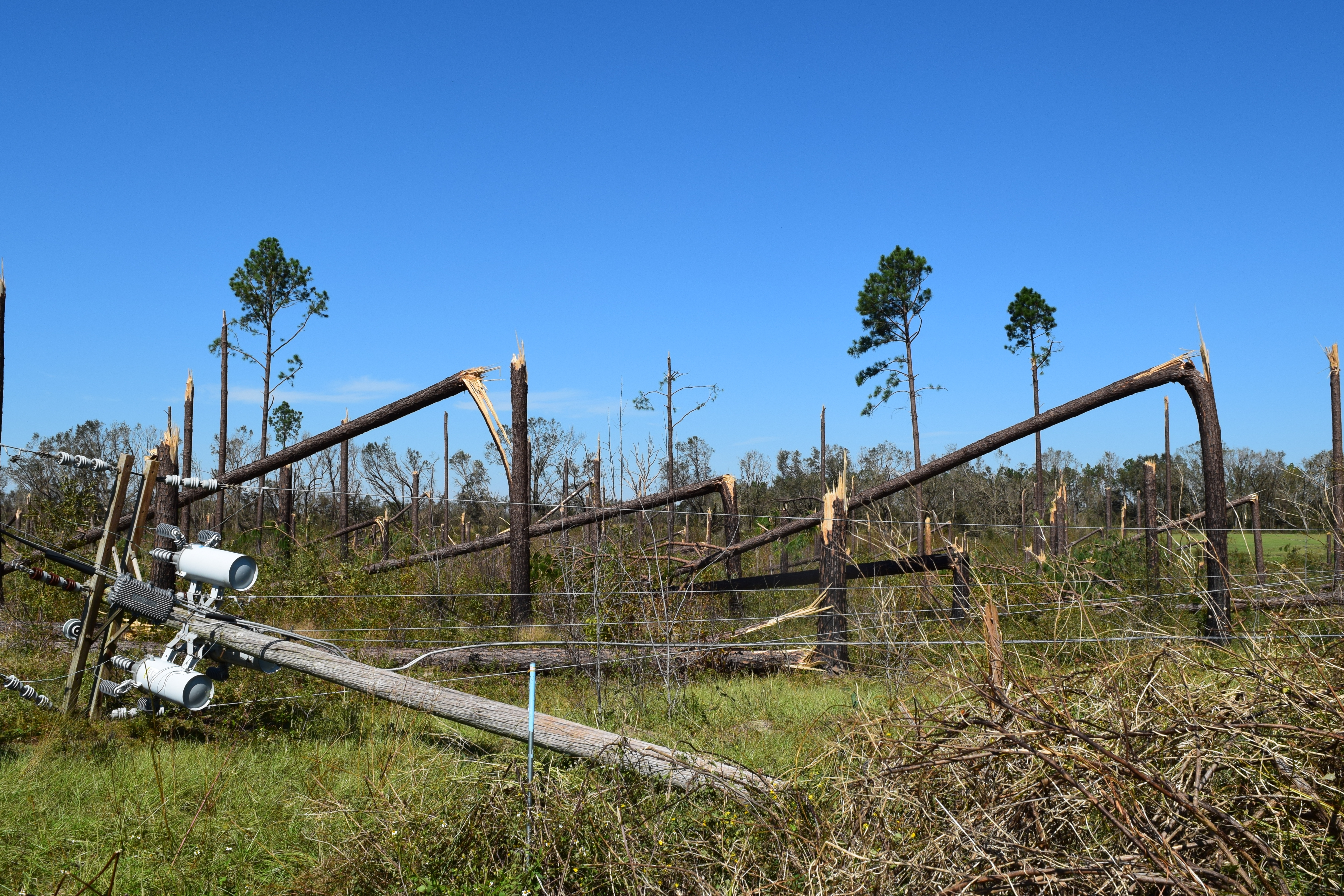 Downed power lines and snapped pine trees along Ga. State Route 253 in Seminole County bear mute witness to the intensity of Hurricane Michael as it moved across Southwest Georgia. This image was taken during a visit by officials of the Georgia Emergency Management Agency, Department of Transportation and Georgia Department of Defense Oct 14, 2018. Georgia National Guard photo by Maj. William Carraway / released